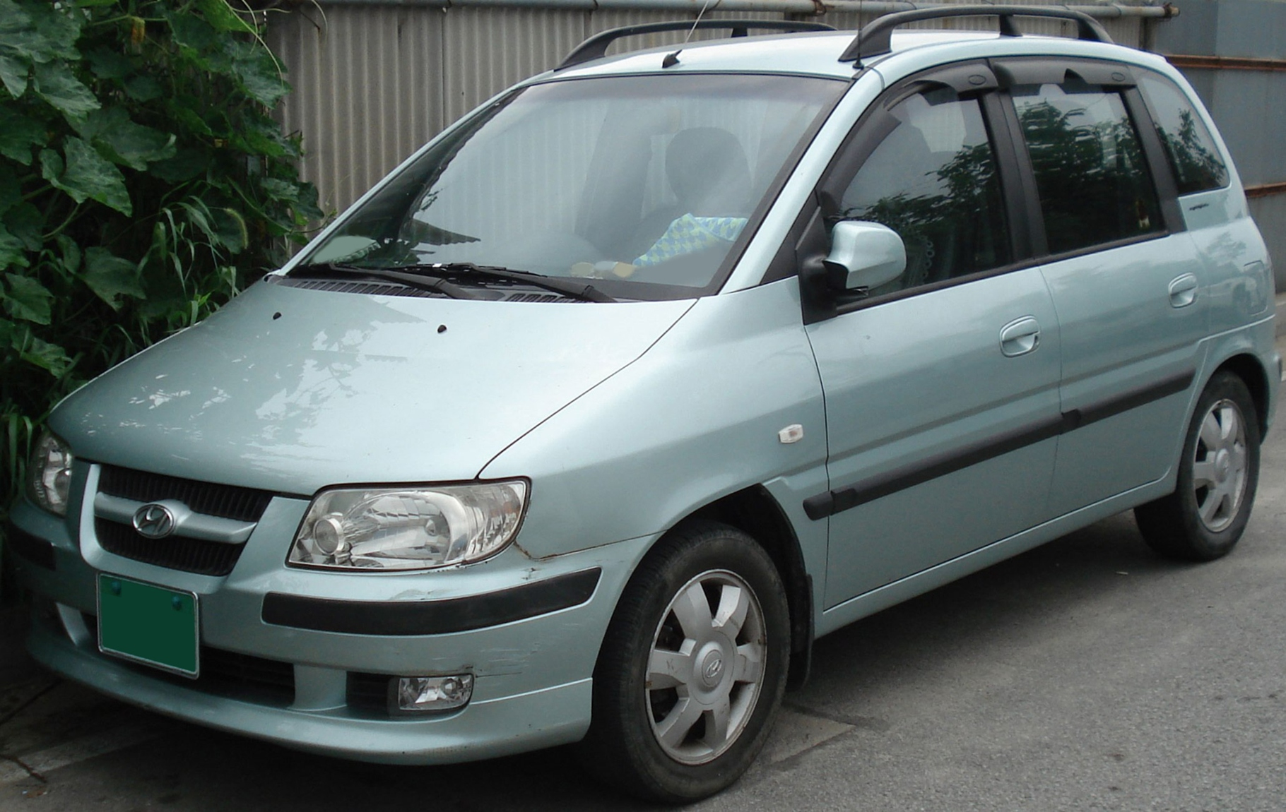 Hyundai Lavita